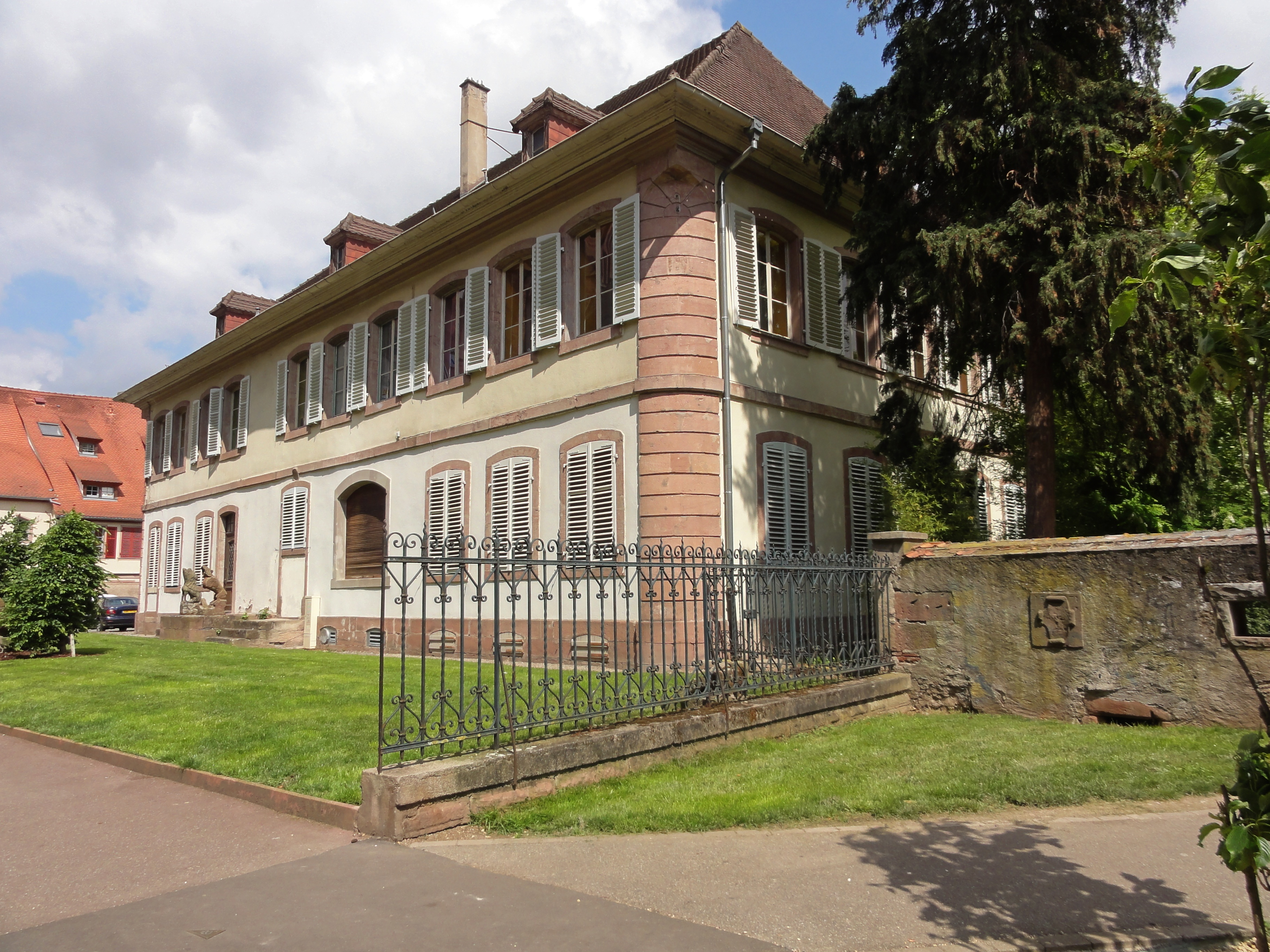 Alsace, Bas-Rhin, Sélestat, Ancien Hôtel de l’Abbaye d’Andlau (XVIIIe), aujourd'hui École maternelle Froebel, rue du Babil, square Paul-Louis Weiller. It is indexed in the Base Mérimée, a database of architectural heritage maintained by the French Ministry of Culture, under the references PA00084982 and IA00124614.